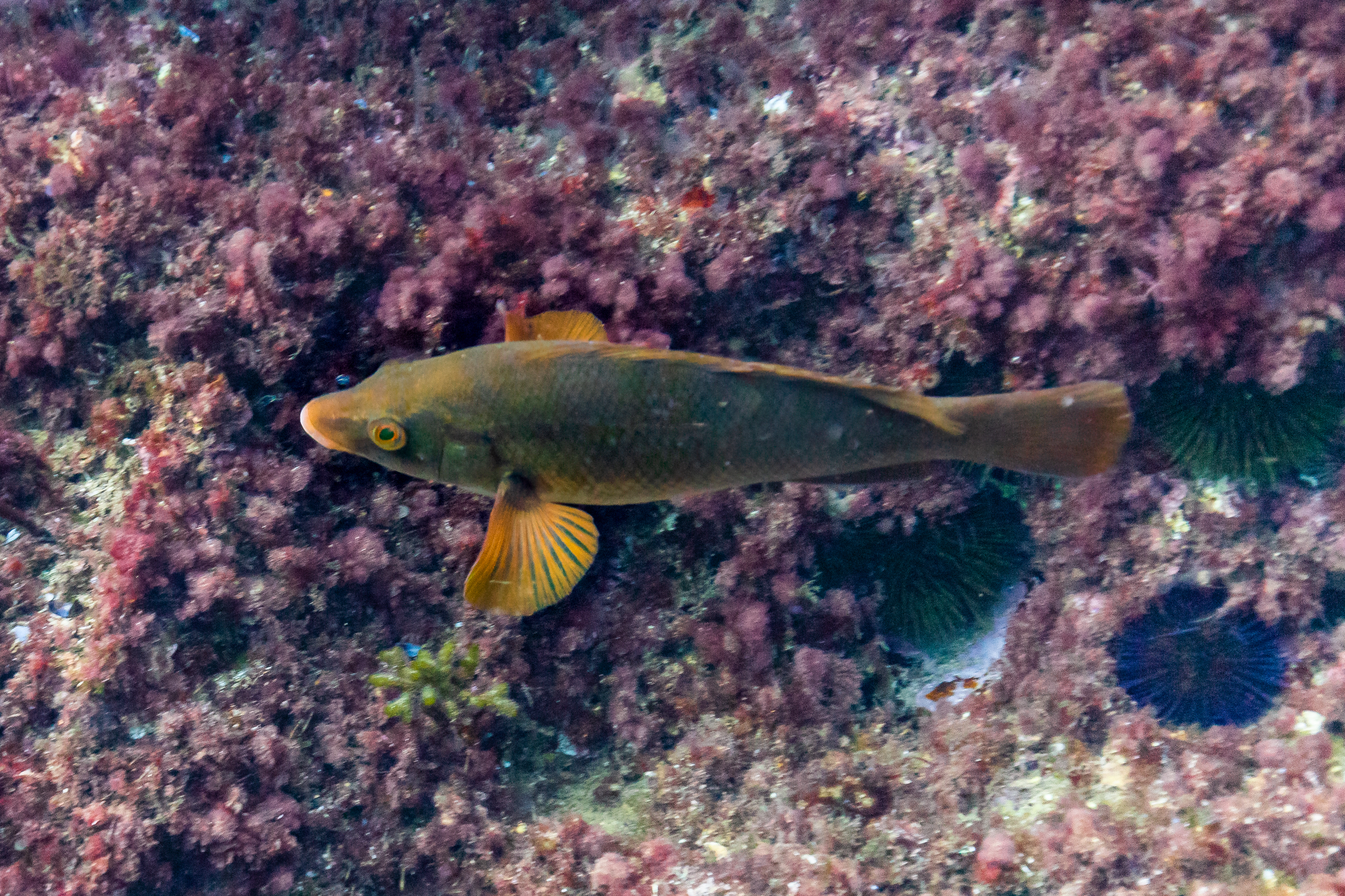 Brown wrasse (Labrus merula), Mouro Island, Santander, Spain